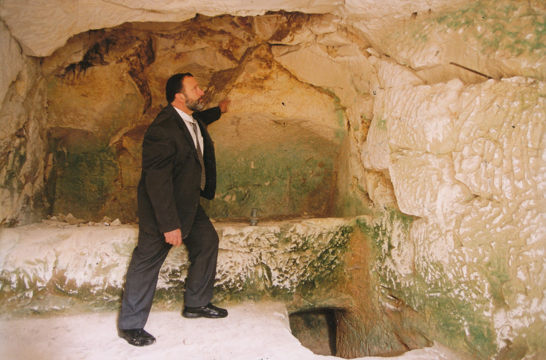 המערה החיצונית בקנה מידה